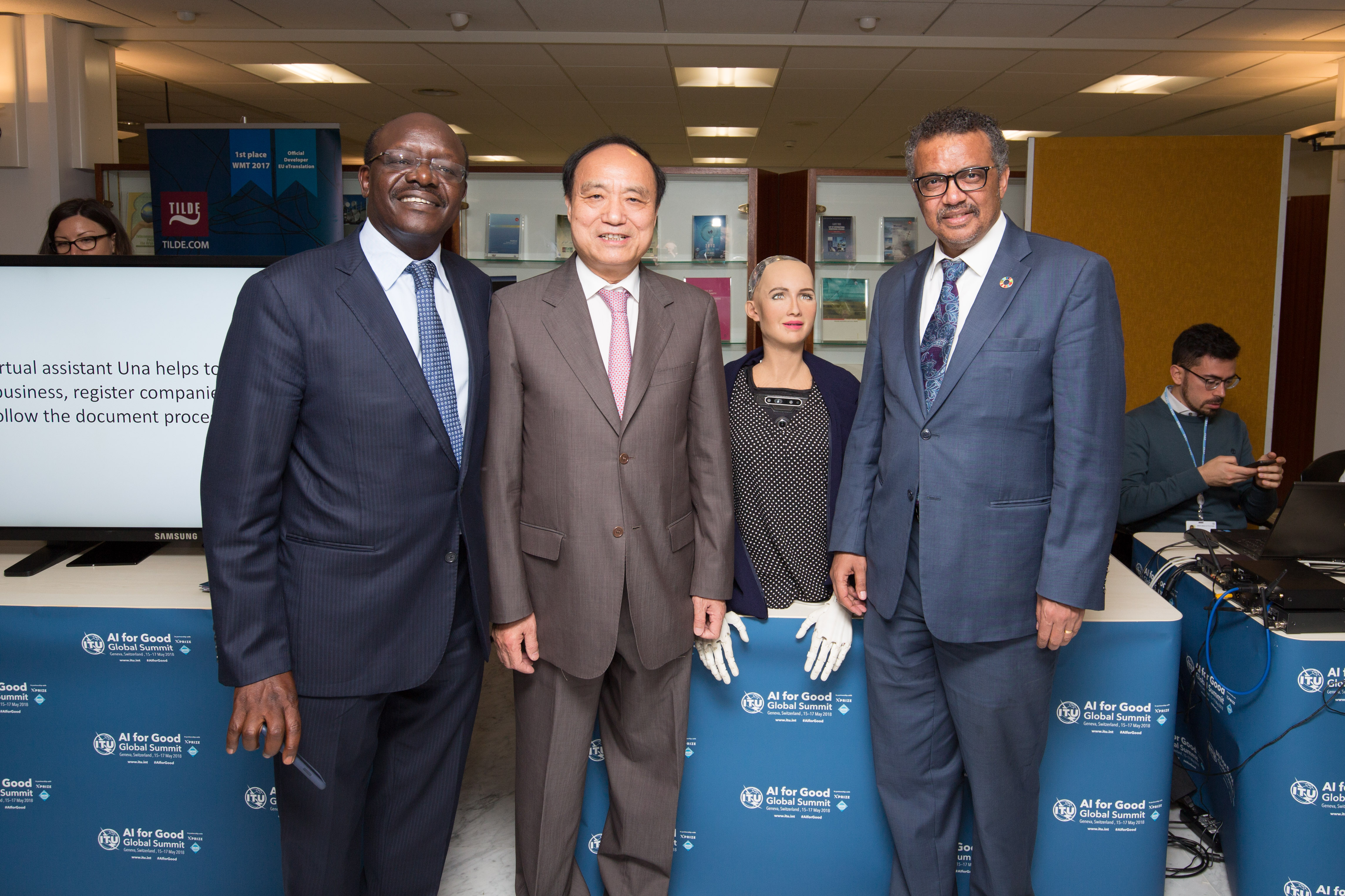 From left to right: Mukhisa Kituyi, Secretary General, United Nations Conference on Trade and Development (UNCTAD, Houlin Zhao, Secretary General, ITU​, Sophia, First Robot Citizen and Tedros Adhanom Ghebreyesus, Director General, World Health Organization at the AI for Good Global Summit 2018